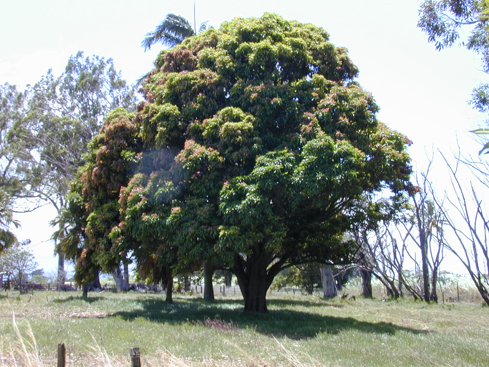 Mangifera indica (habit). Location: Maui, Makawao